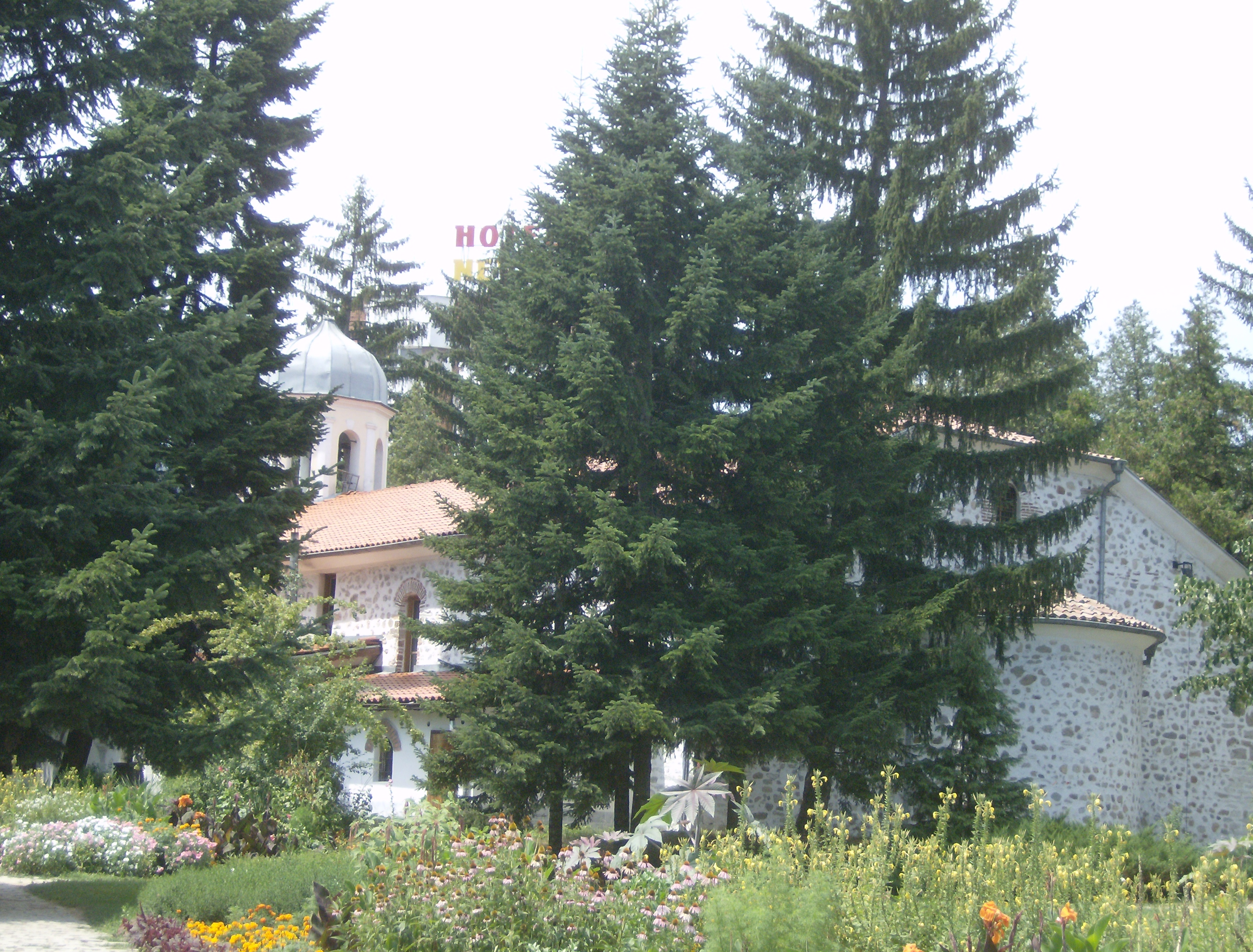 Gotse Delchev Church